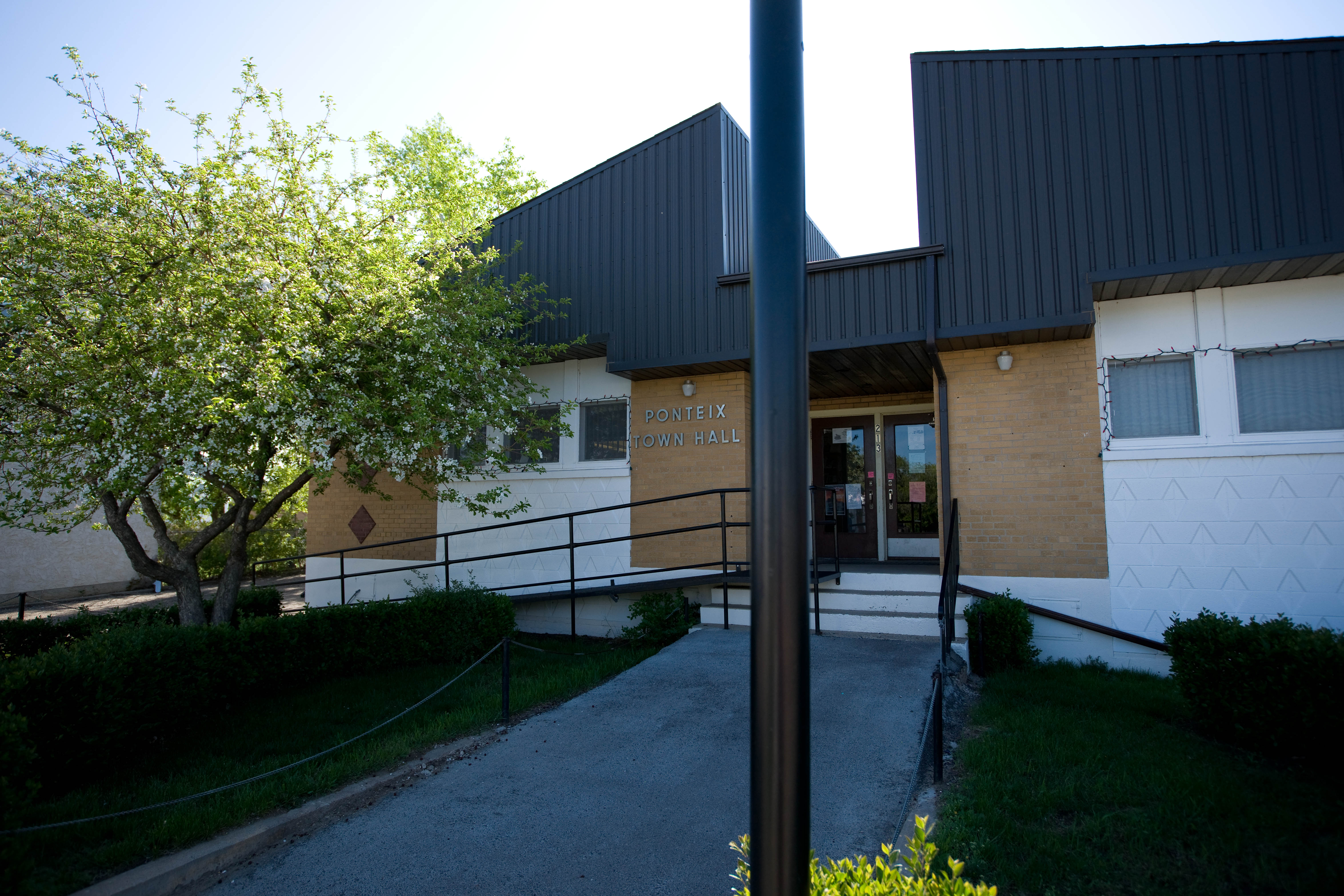 Ponteix town hall From